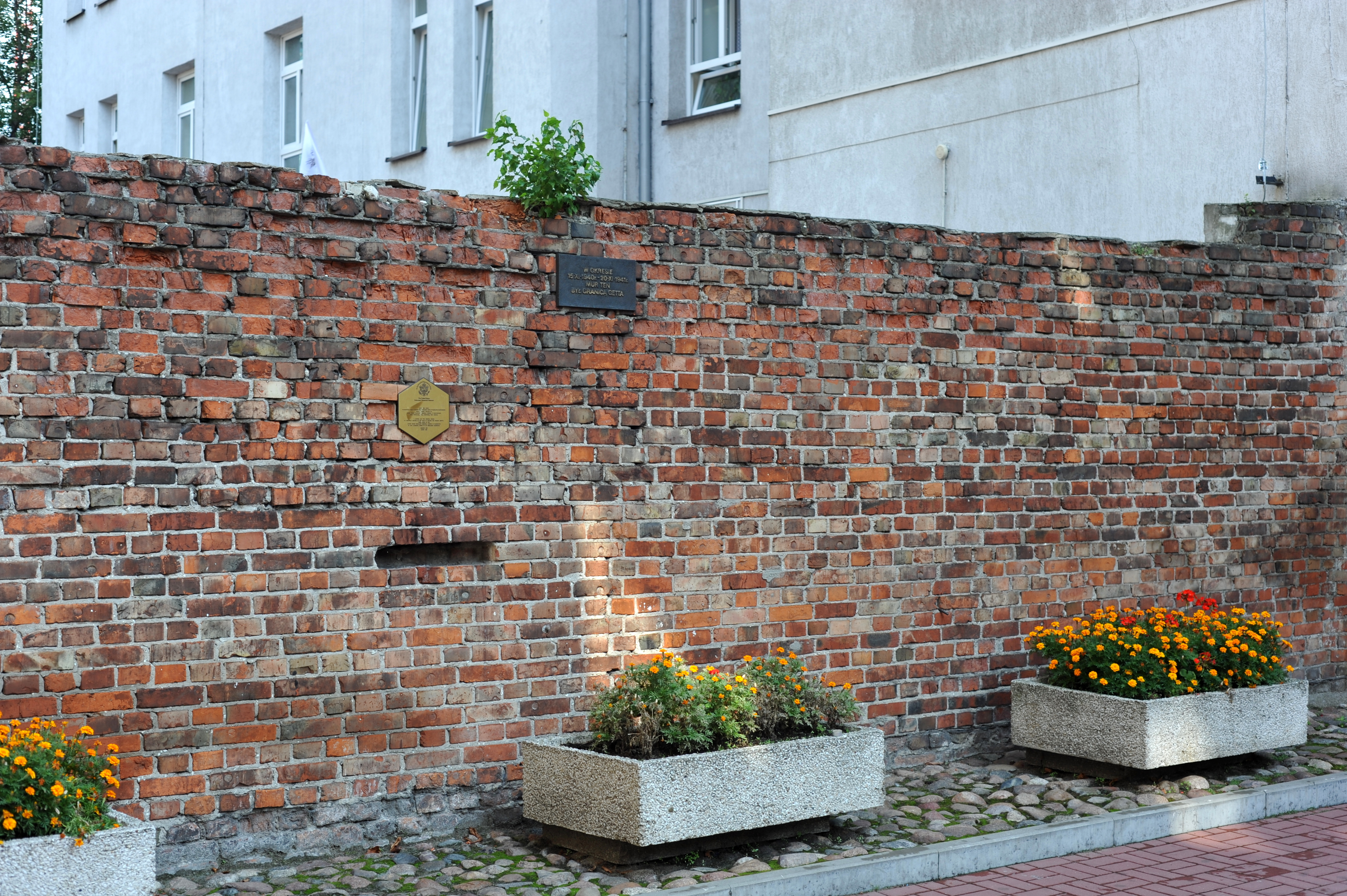 Remaining part of Warsaw Ghetto wall in a backyard of Sienna 55.